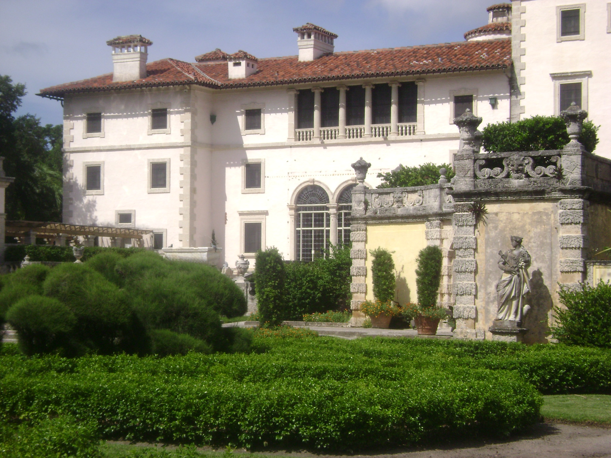 Vizcaya Estate 1914-16 MIami Dade County, Florida